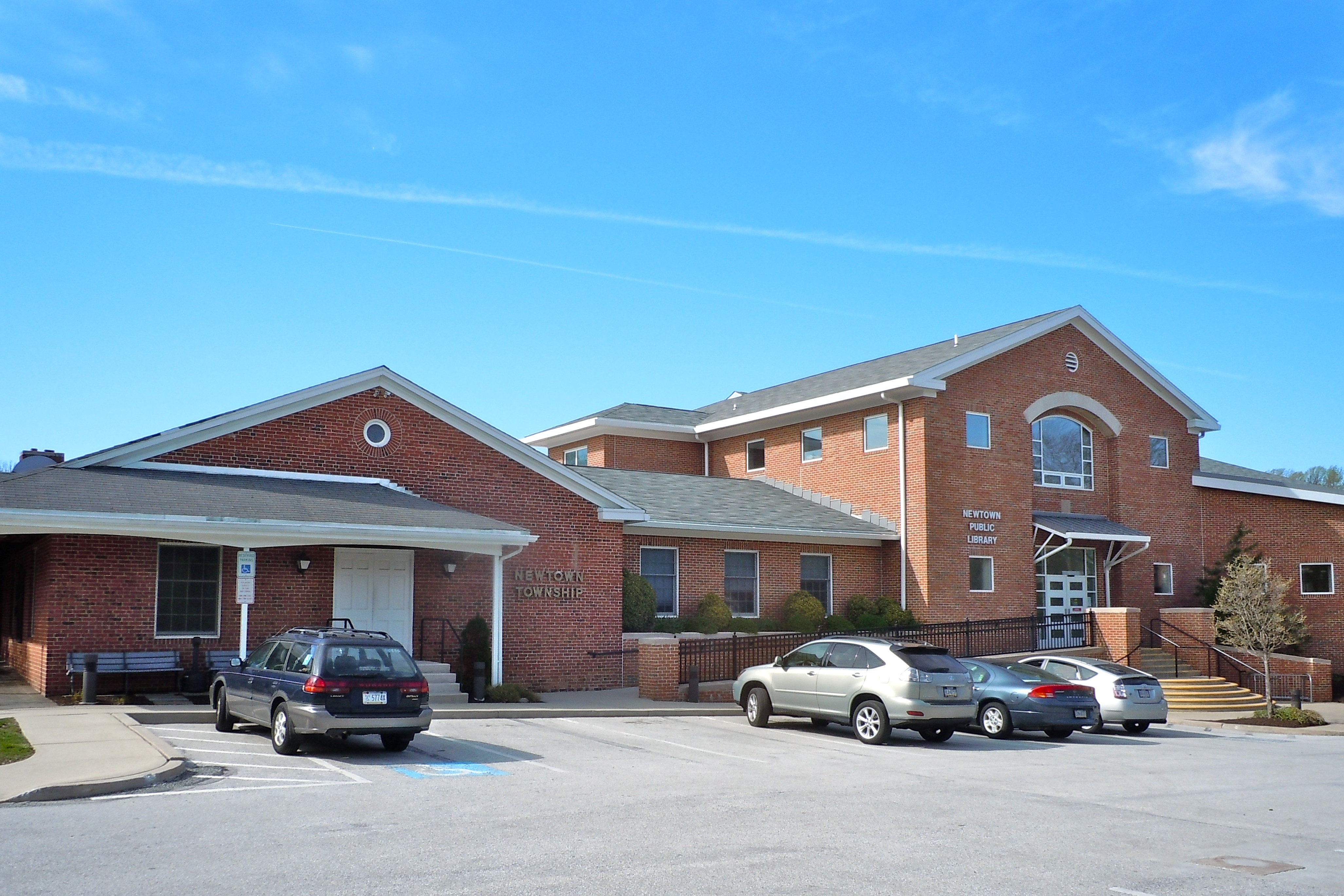 The township municipal offices and library in Newtown Township (aka Newtown Square), Delaware County, Pennsylvania on Bishop Hollow Road